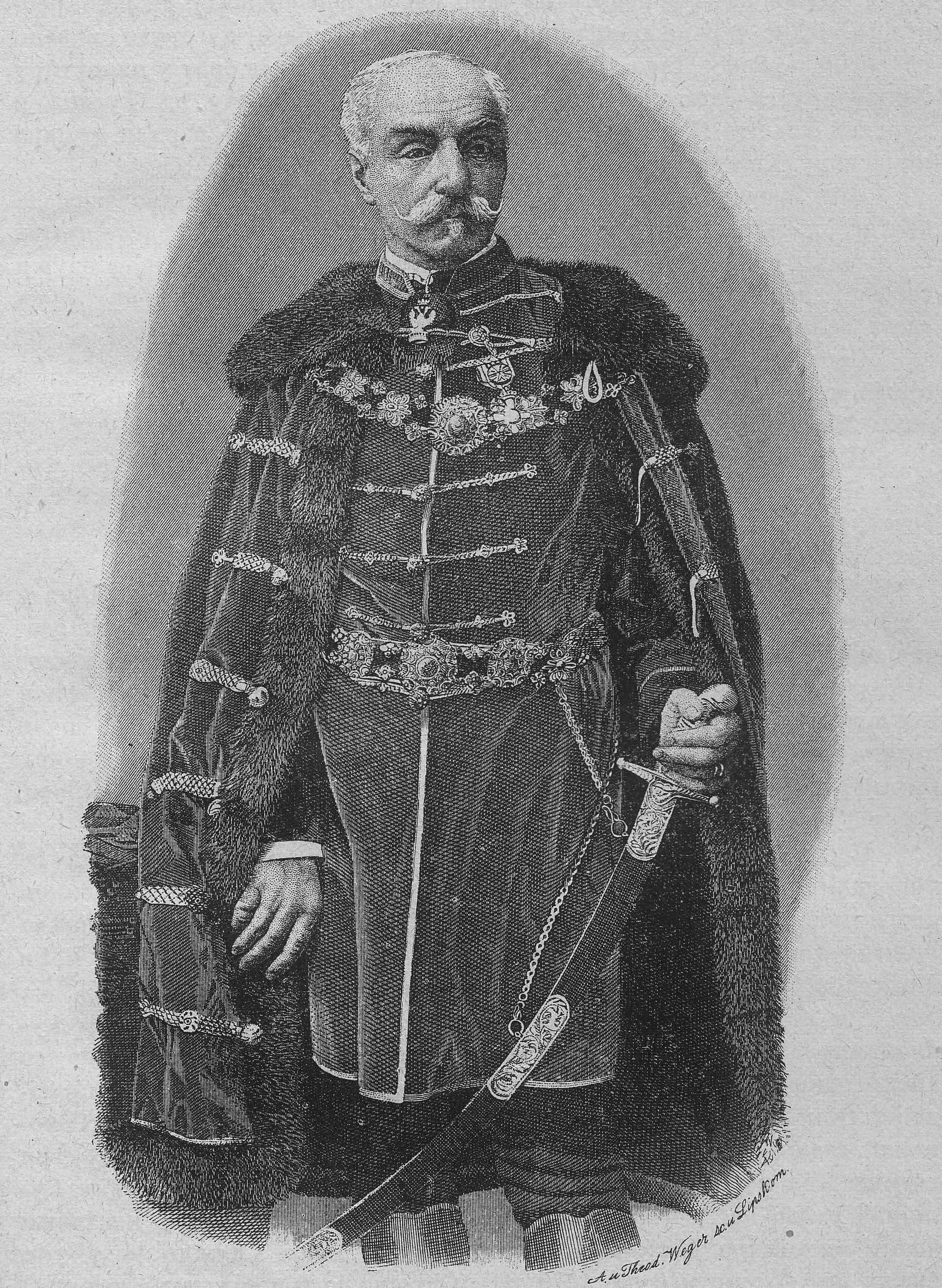 Baron Miloš Bajić (1827-1897), a landowner in Hungary and a benefactor. Taken from the 1898 edition of the calendar Srbobran. Srpski (latinica): Baron Miloš Bajić (1827-1897), veleposednik u Ugarskoj i dobrotvor. Preuzeto iz kalendara Srbobran za 1898. godinu.